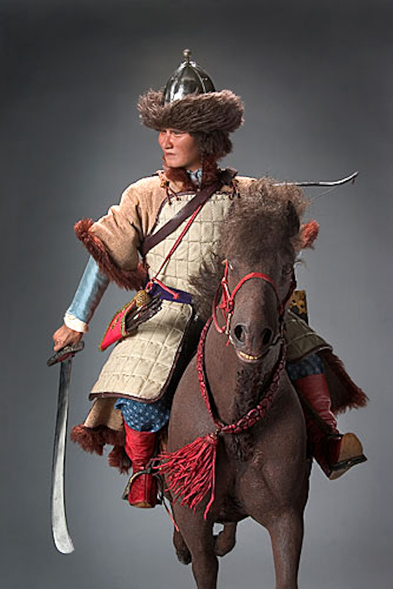 Historical Mixed Media Figure of Attila the Hun produced by artist/historian George S. Stuart and photographed by Peter d'Aprix. This image, from the George S. Stuart Gallery of Historical Figures® archive ( is provided for all uses with appropriate attribution. Any derivatives must be shared in the same manner. Contributor mharrsch is webmaster for the gallery site.